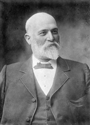 Mephan Ferguson, The original of this image has significant damage, I have edited the image to reduce the visable damage.